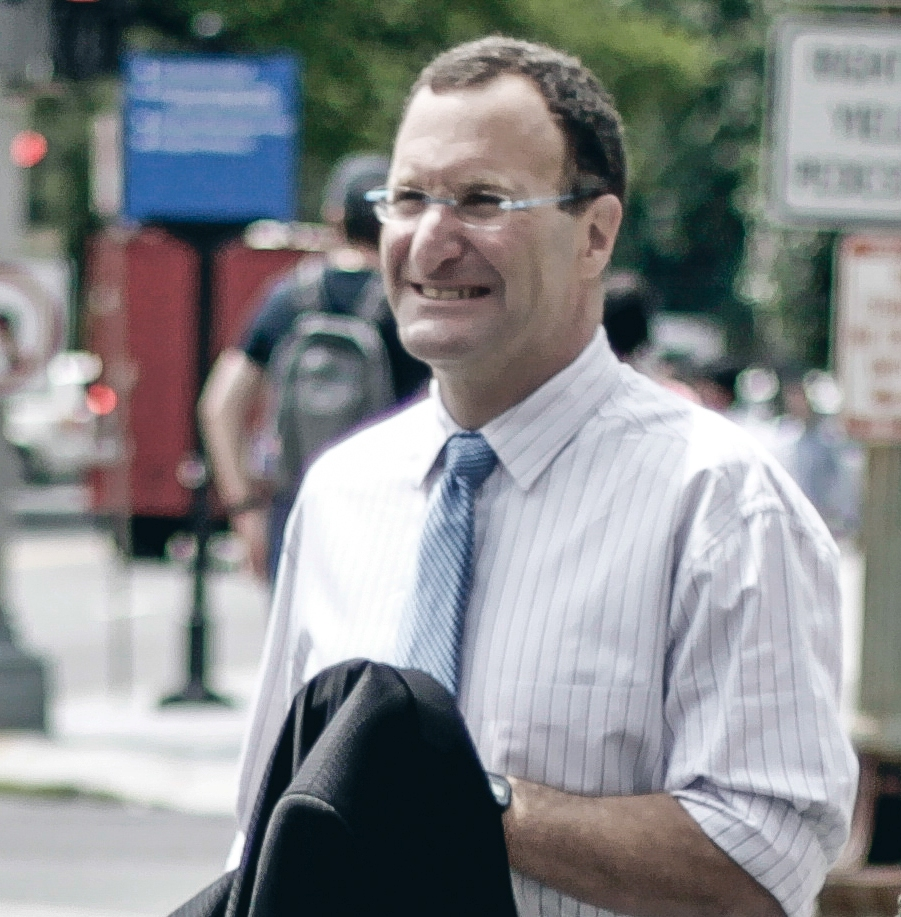 Photo of Mike Rossener during a White House event recognizing the Champions of Change in Open Science. Cropped version of image found at [1]